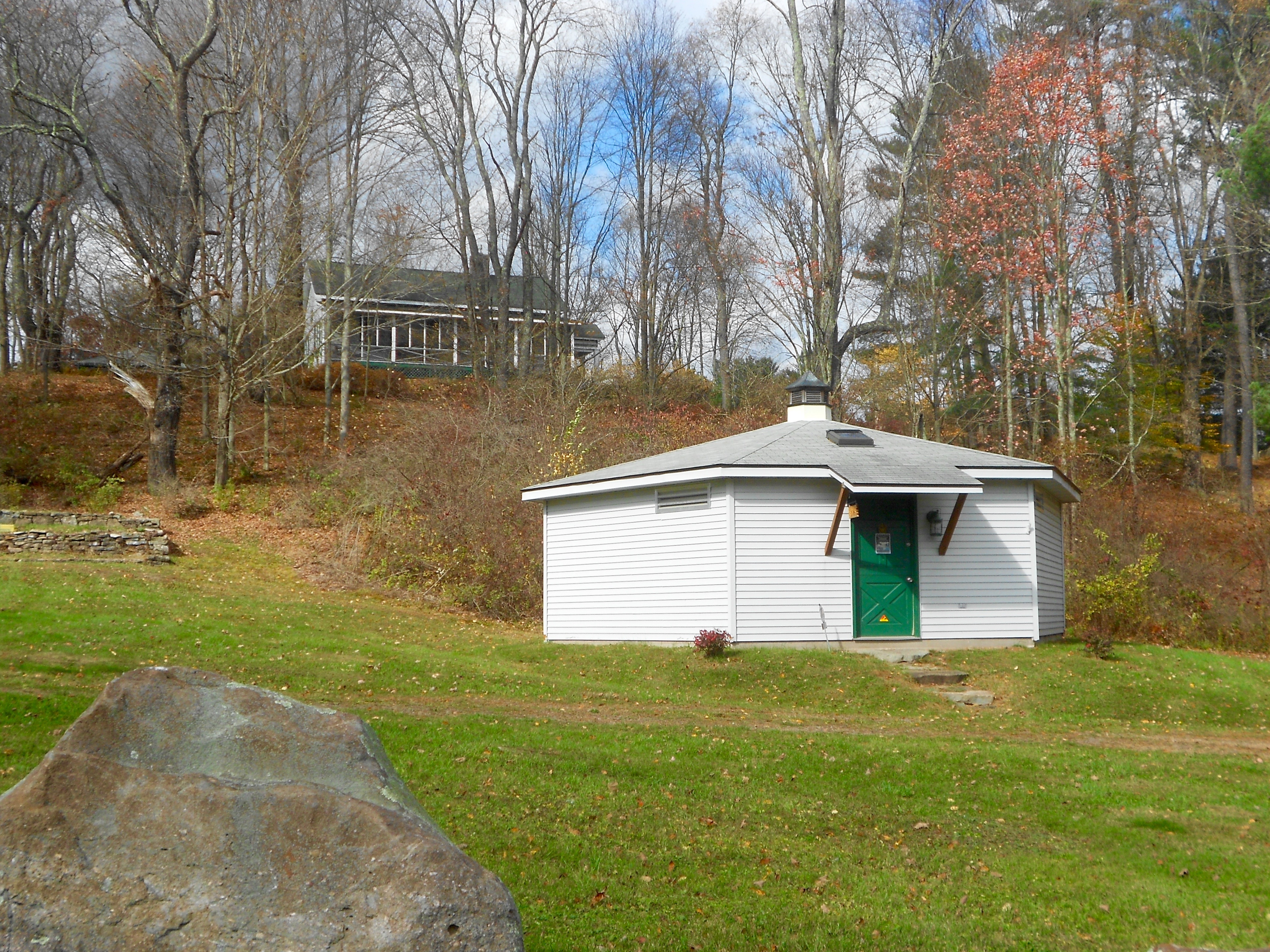 Stodardsville Preservation Society in the place called Stoddardsville, Buck Township, Luzerne County, Pennsylvania. Roughly 6 houses in the place. List on the NRHP